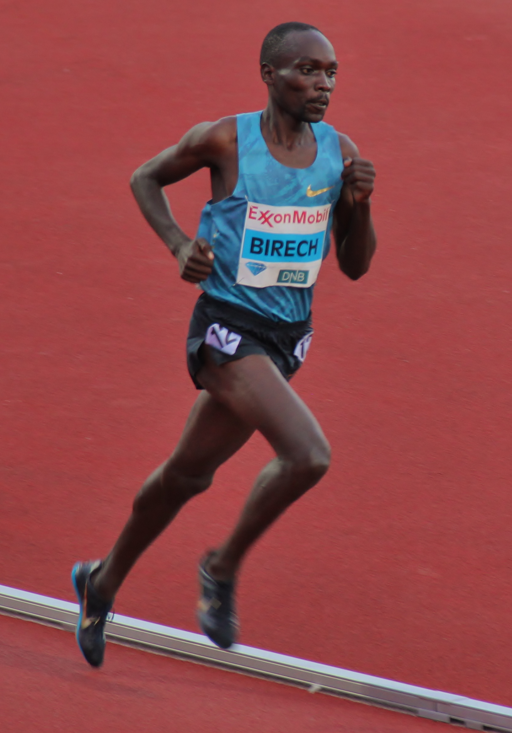 Jairus Kipchoge Birech, Kenyan distance runner at the 2015 Bislett Games